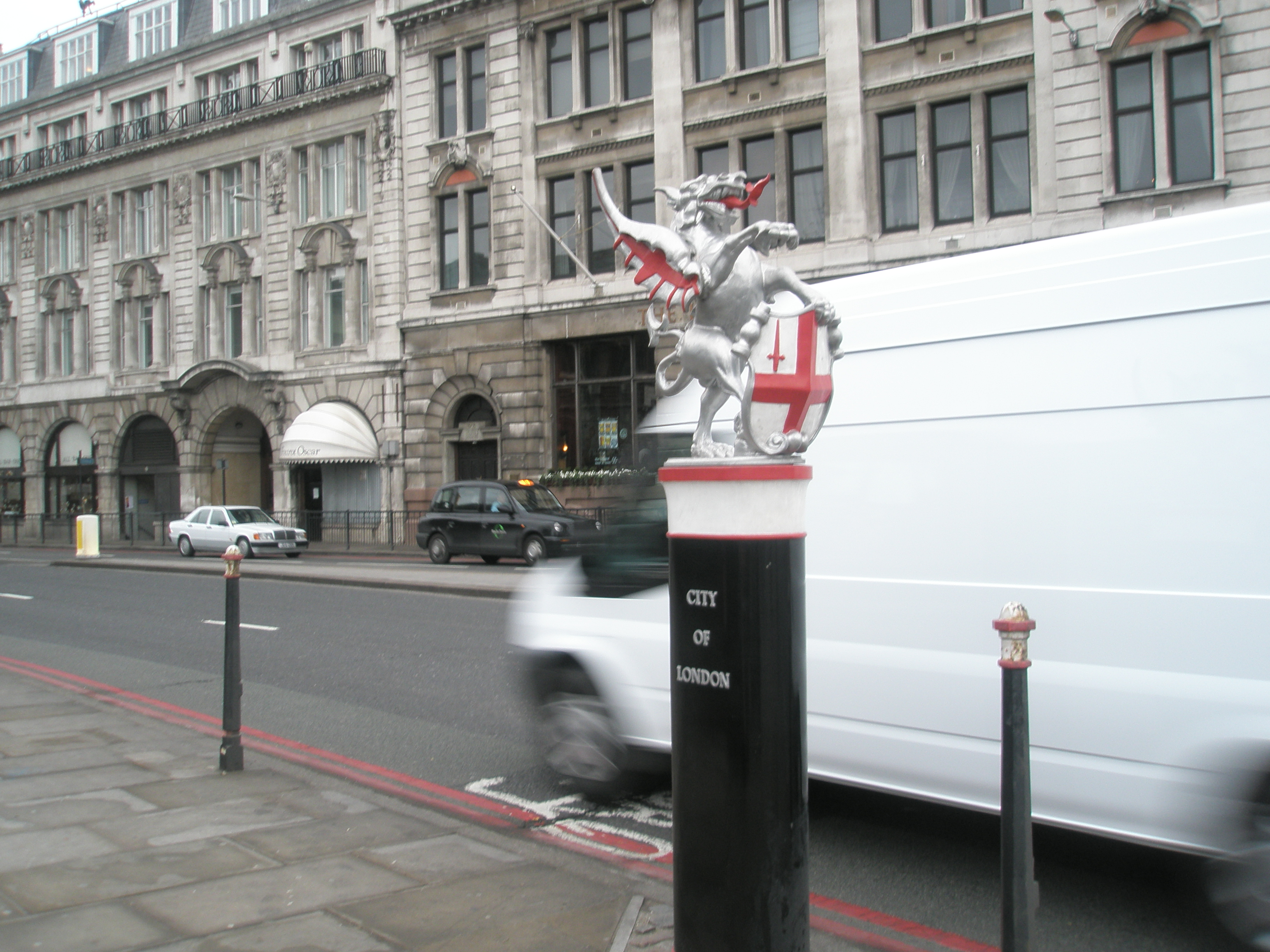 City of London Boundary Post, Byward Street